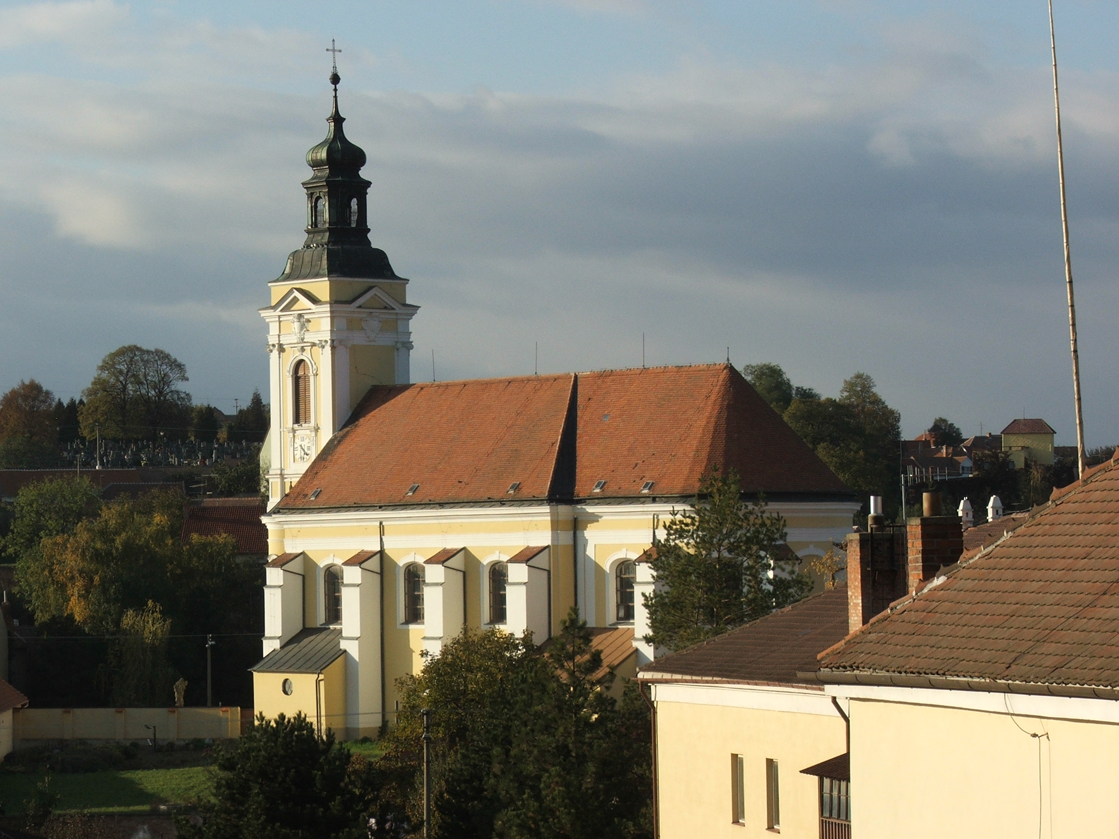 Church of St. Cunigunde in Čejkovice (1783), Hodonín District, South Moravian Region, Czechia.